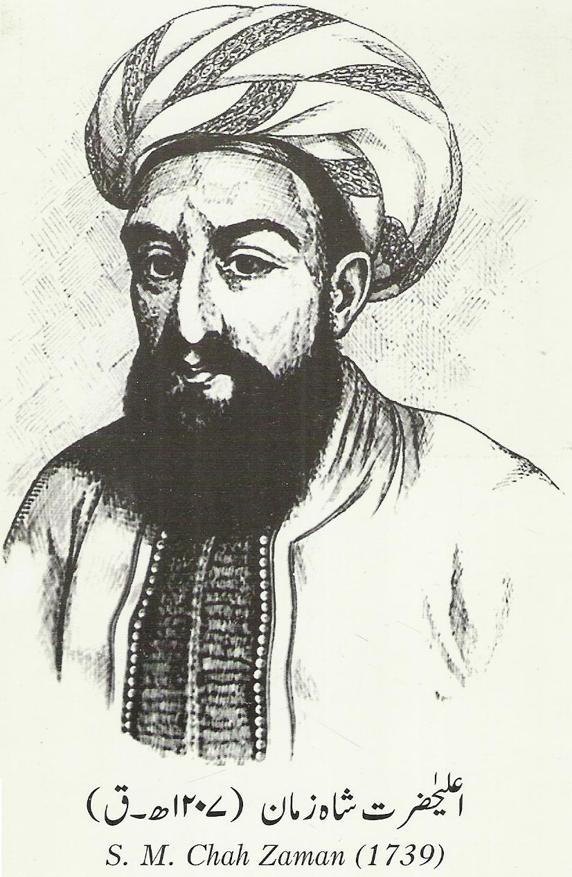 Zaman Shah Durrani, King of Afghanistan in 1793 to 1801.